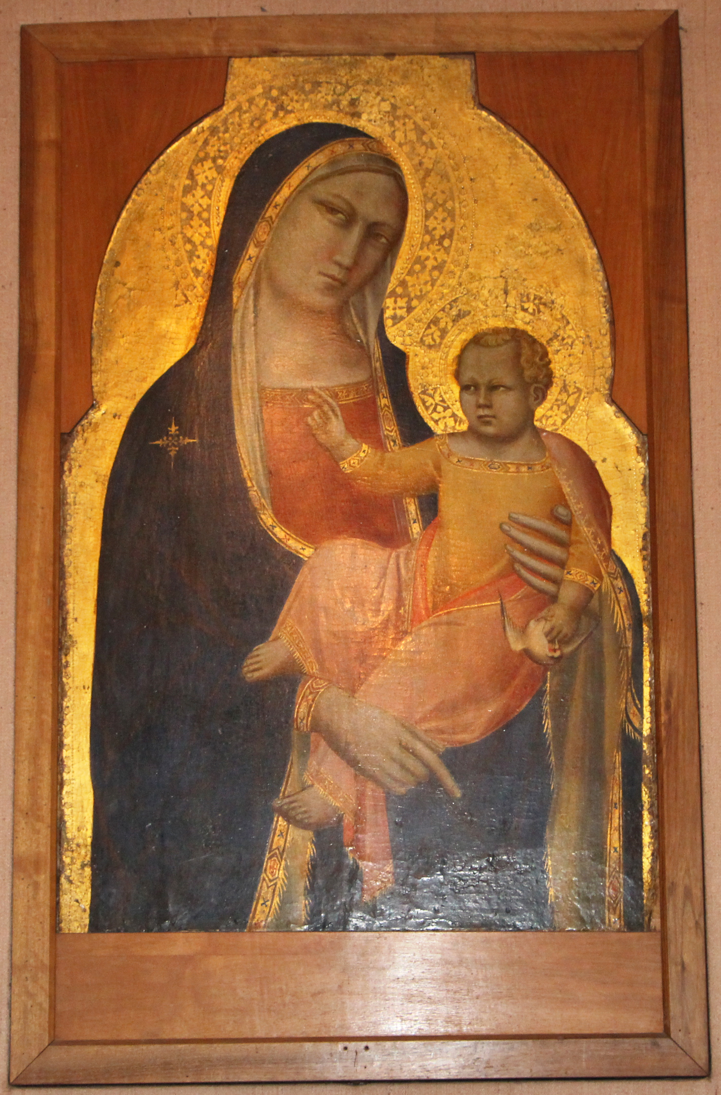 San Lorenzo alle Rose